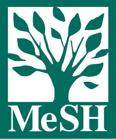 The logo of Medical Subject Headings